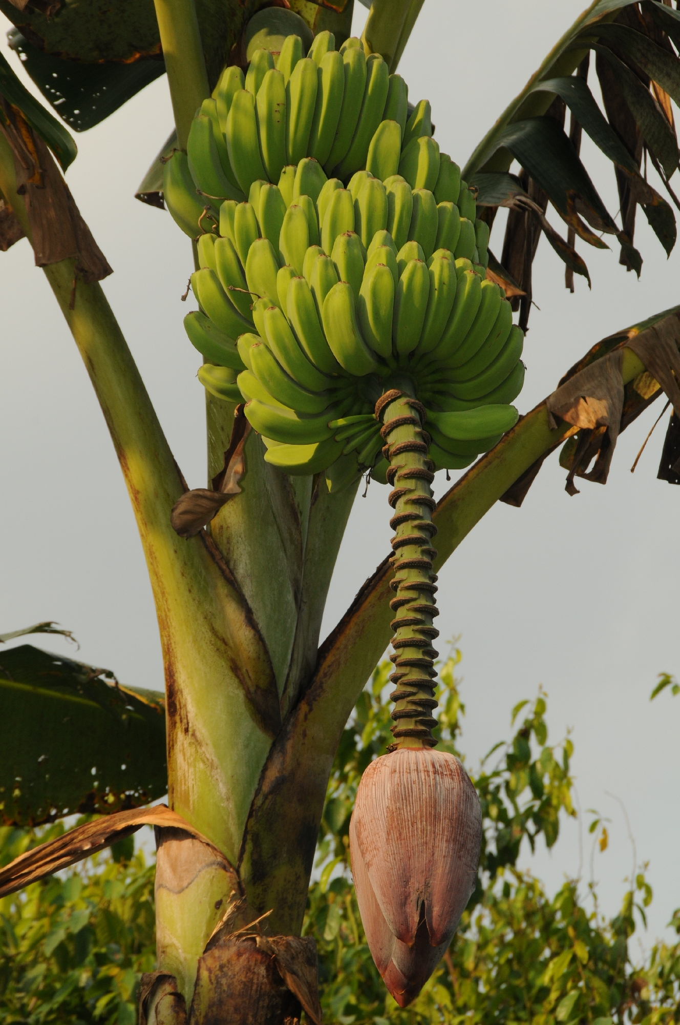 Banana